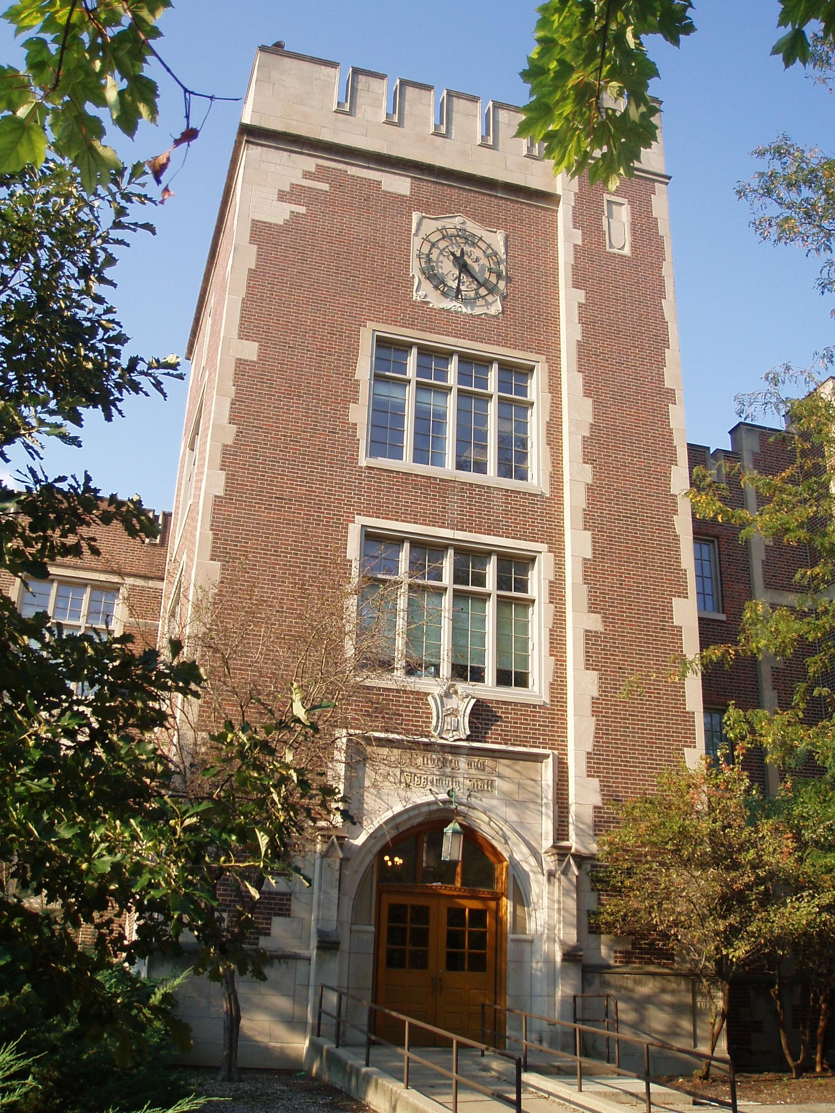 Picture of a Tower on the North Quad Building at BSU